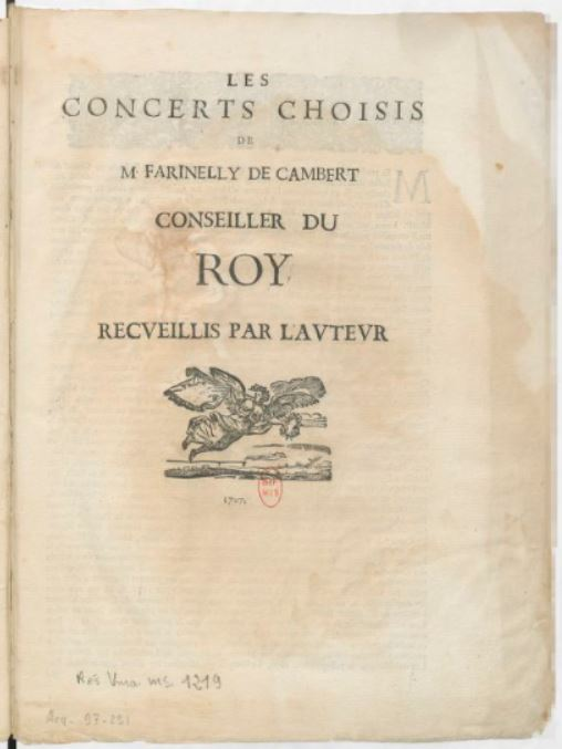 Title page of Michel Farinel's Concerts choisis (1707). Paris BNF.